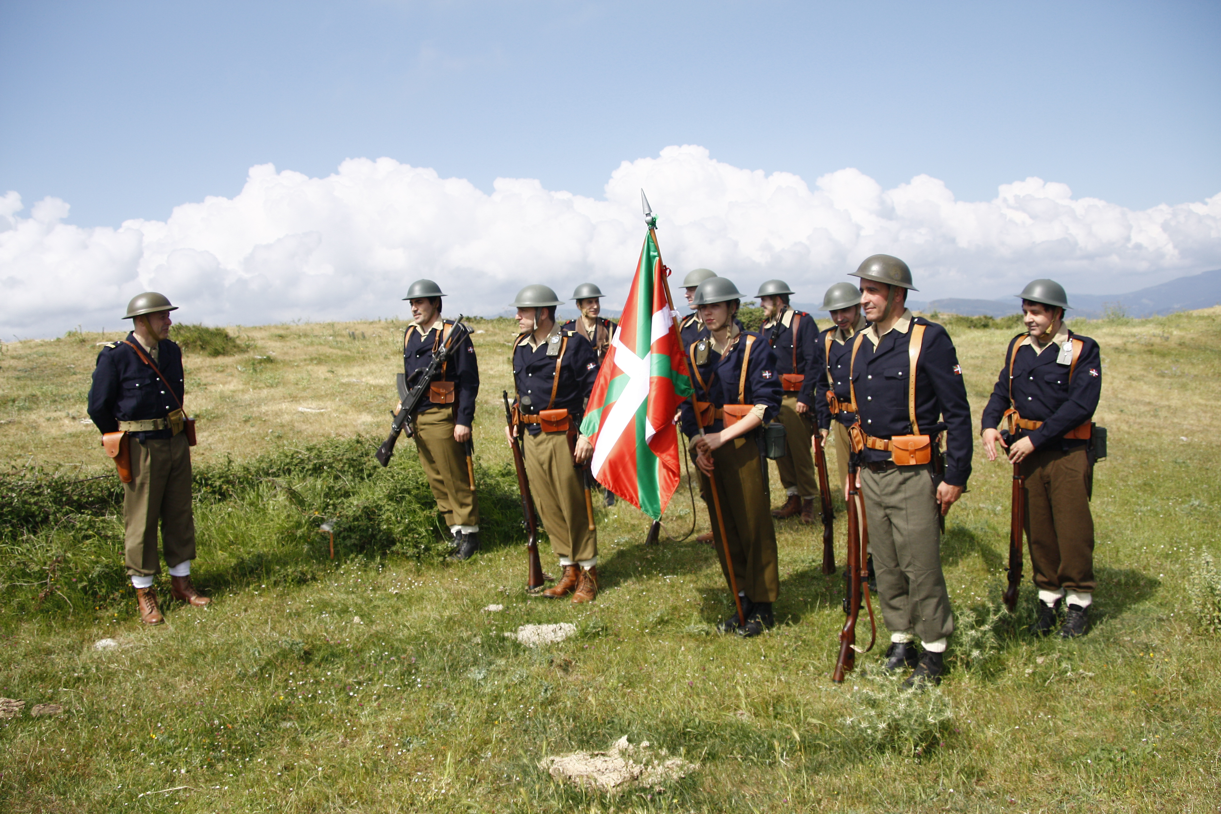 Reenactment Gernika bataloia, 2014.